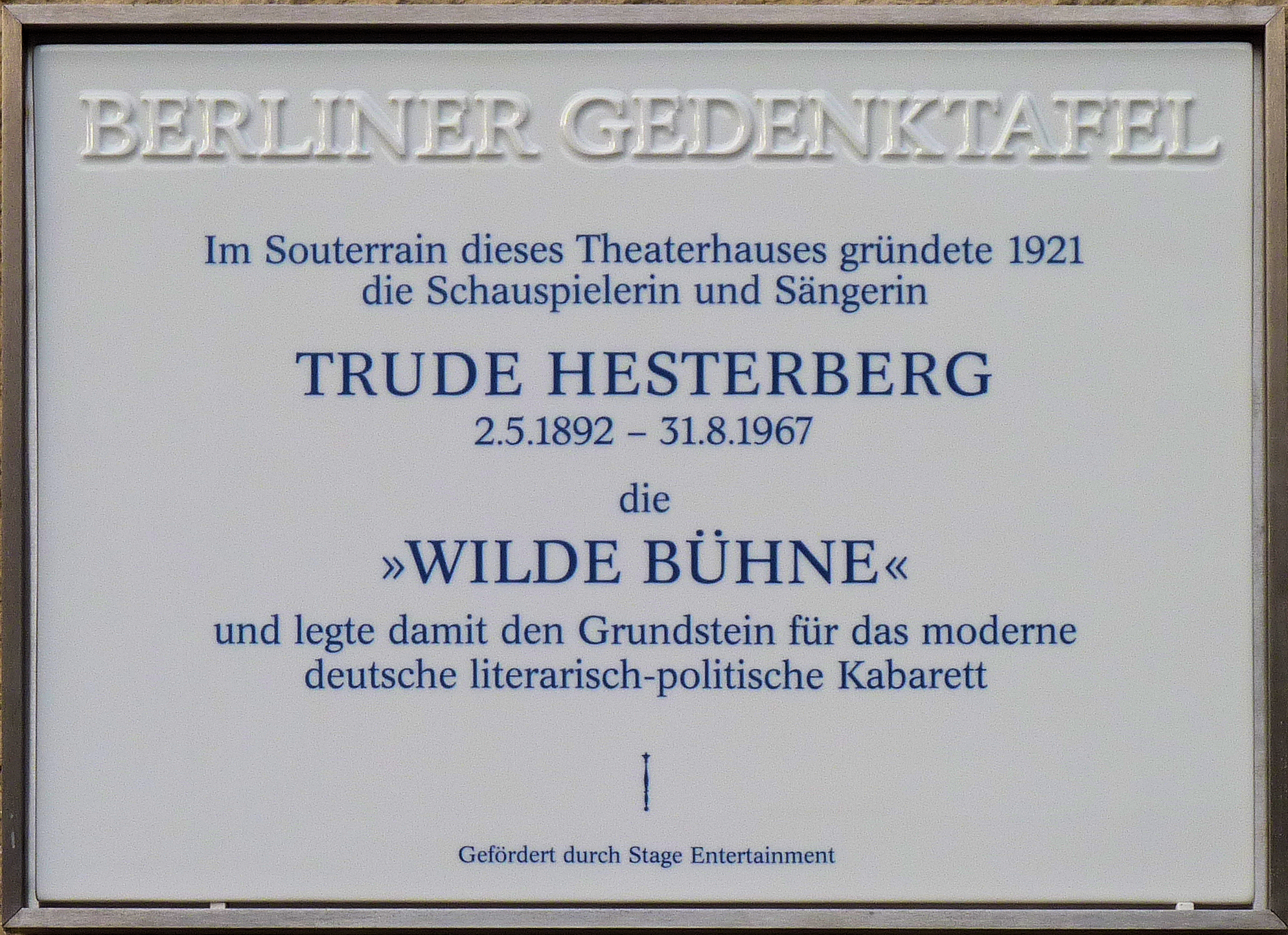 Berlin memorial plaque, Trude Hesterbergand the Wilde Bühne, Kantstraße 12, Berlin-Charlottenburg, Germany